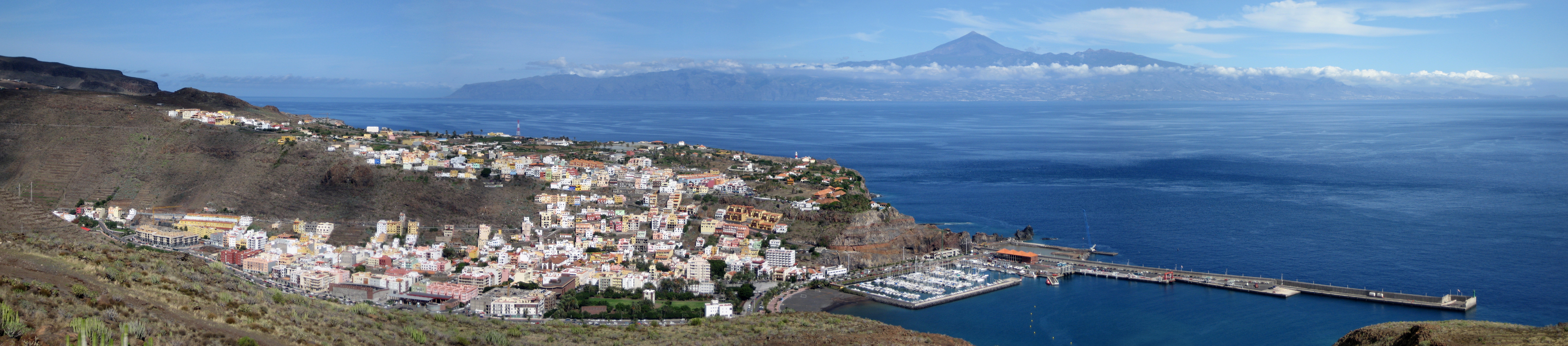 View of San Sebastián de la Gomera, Panorama on the south of La Gomera